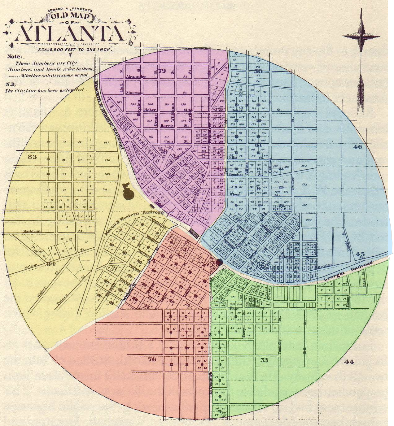 Created with Inkscape on top of Public Domain 1851 Atlanta map